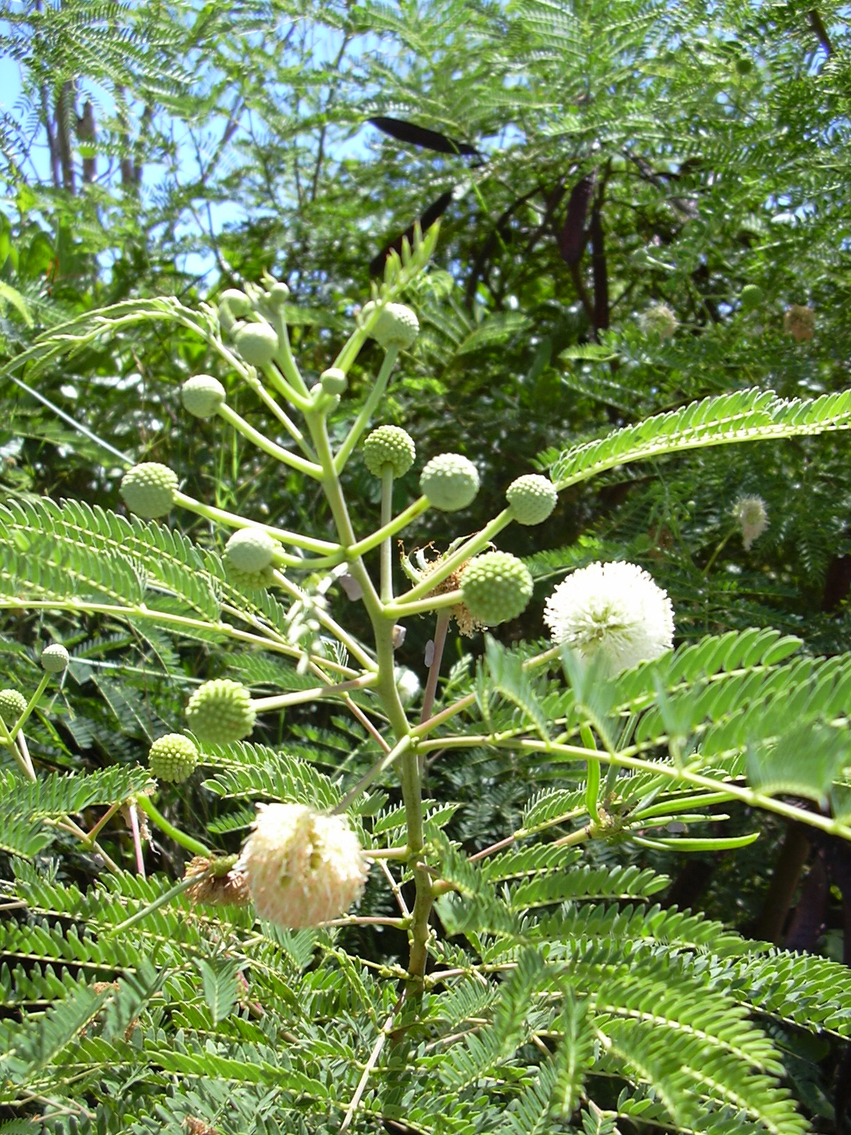 Leucaena leucocephala (flowers). Location: Maui, Kahului